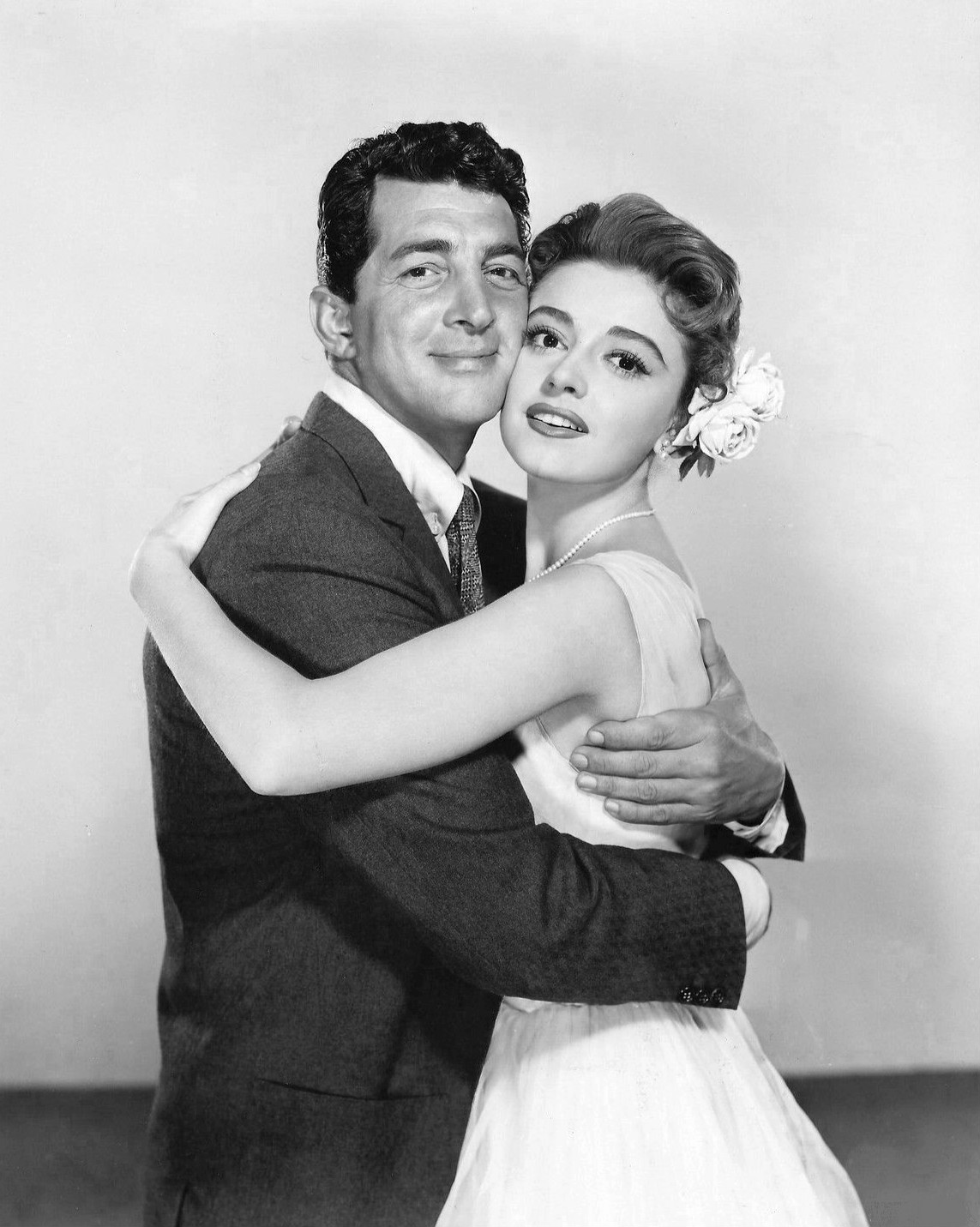 Dean Martin & Anna Maria Alberghetti - for Ten Thousand Bedrooms, released in 1957